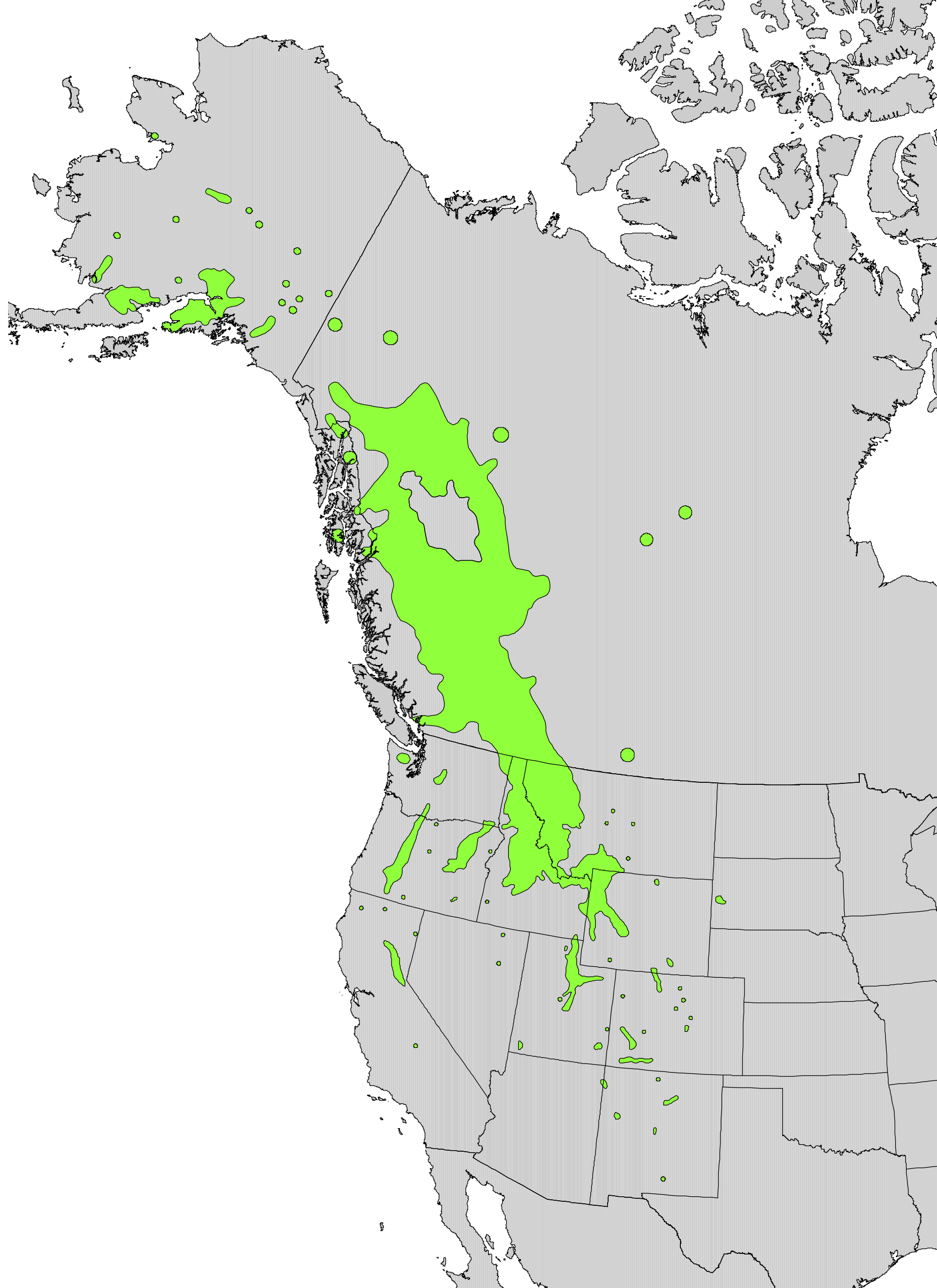 Range map of Sorbus scopulina